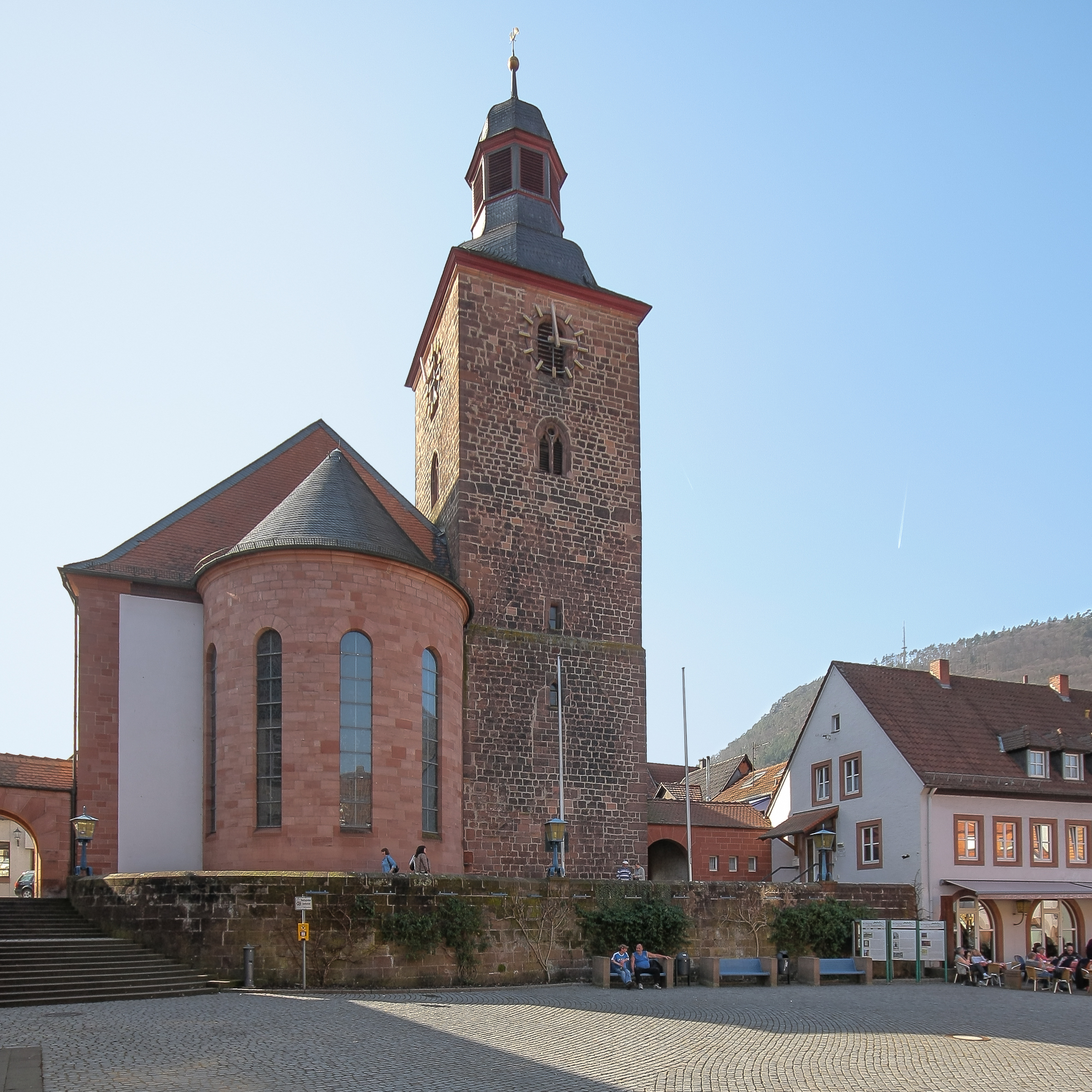 Protestant church of Annweiler am Trifels as seen from the Marktplatz